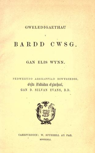 Gweledigaethau y Bardd Cwsg, a classic Welsh-language satire originally published in 1701; paper cover of the 4th William Spurrell edition (Carmarthen, 1841) edited by scholar D. Silvan Evans.